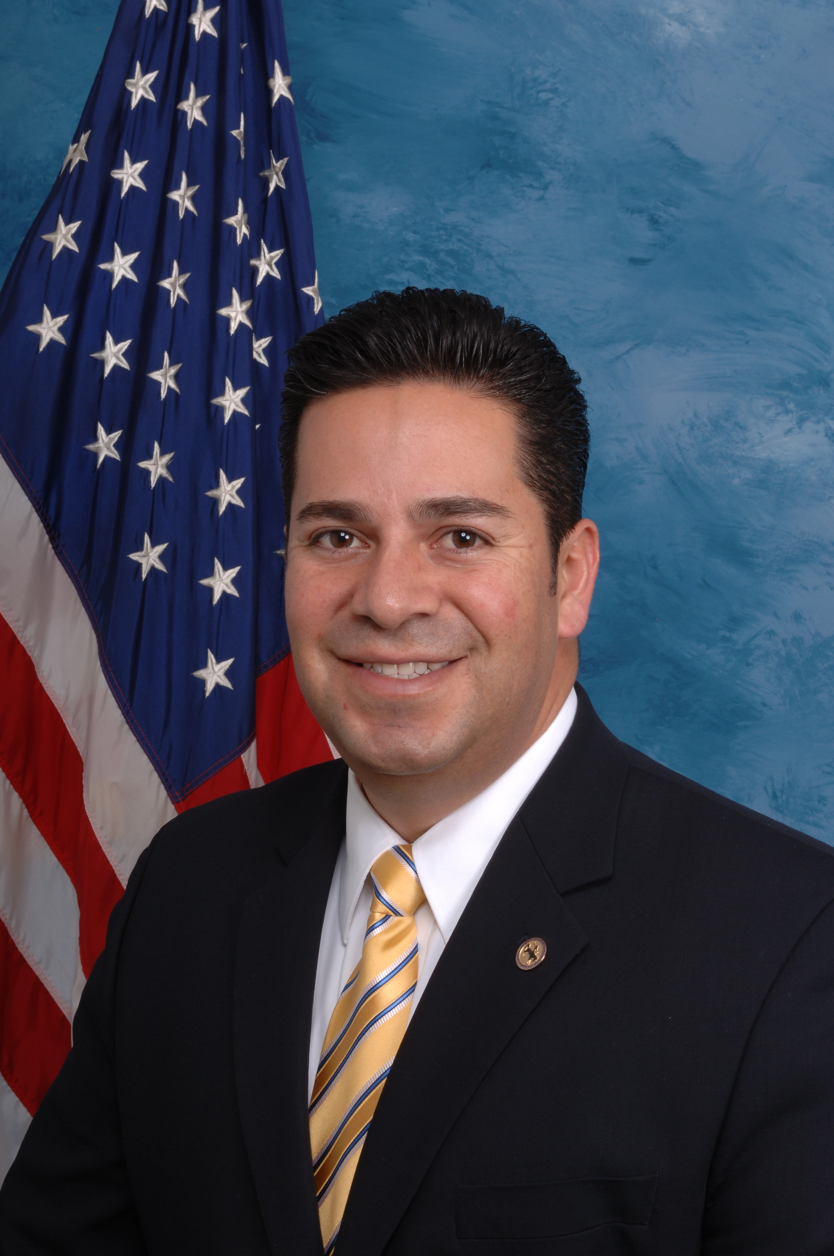 Official photo of Congressman Ben Ray Lujan (D-NM).